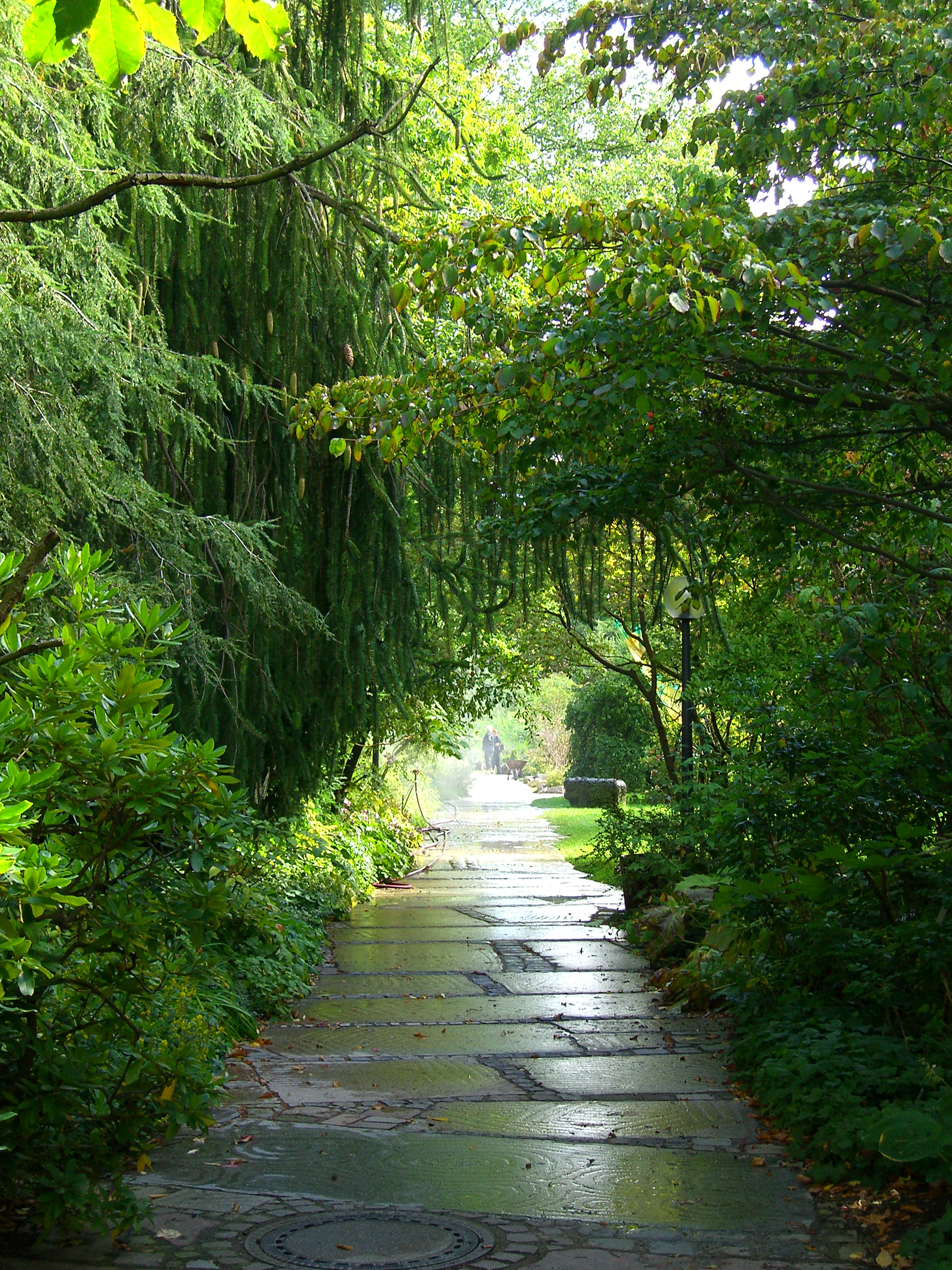 The entrance of the botanical garden of Erlangen in Erlangen, Germany.